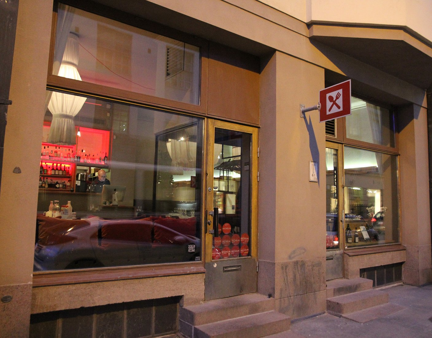 Restaurant Demo, with address Uudenmaankatu 9-11, 00120 Helsinki, Finland, . It is the Restaurant of the Year 2006 in Finland, and received Michelin-star in 2007 (still holding it in 2017). Demo is led by chef Tommi Tuominen. This photo was taken some 40 min before restaurant was opened to customers.